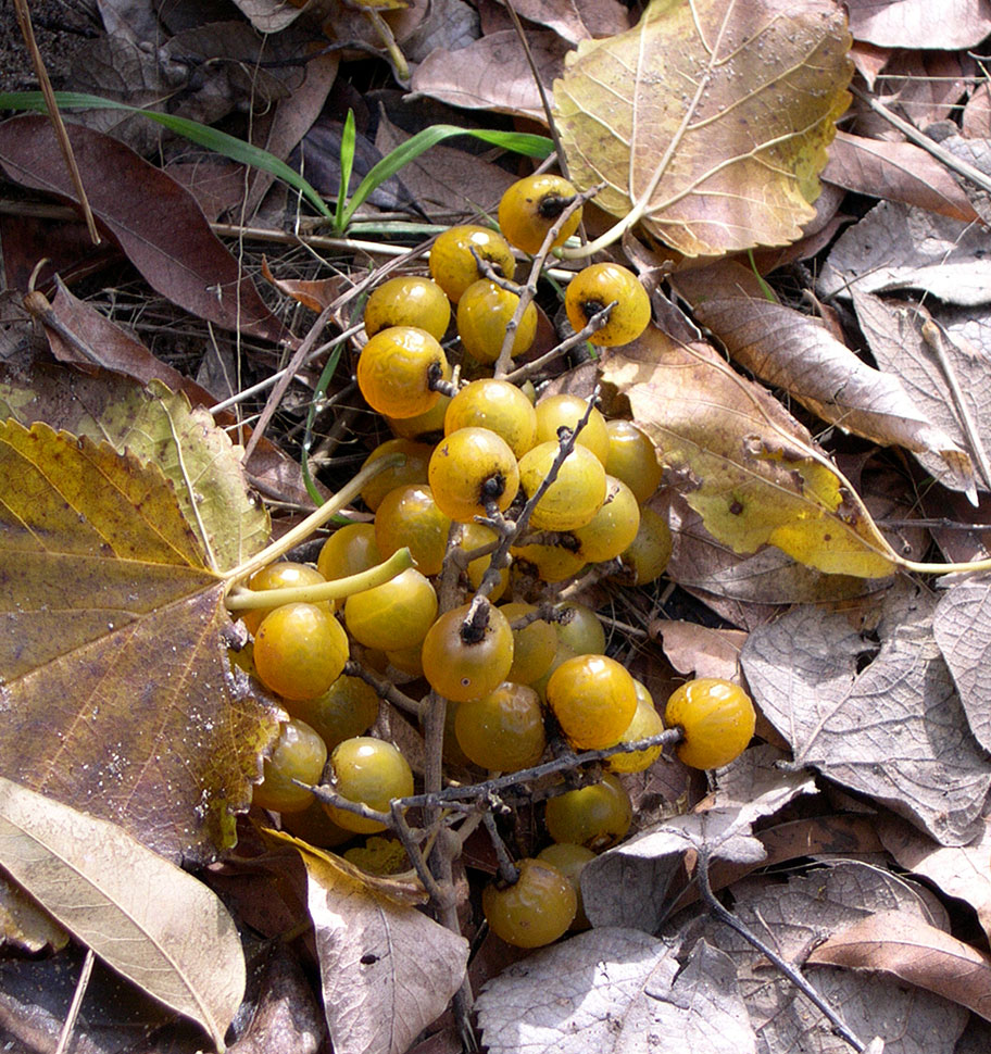 Western Soapberry berries, var. drummondii